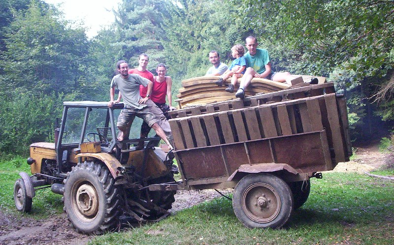 End of the season in tent base in Regetów, Poland.